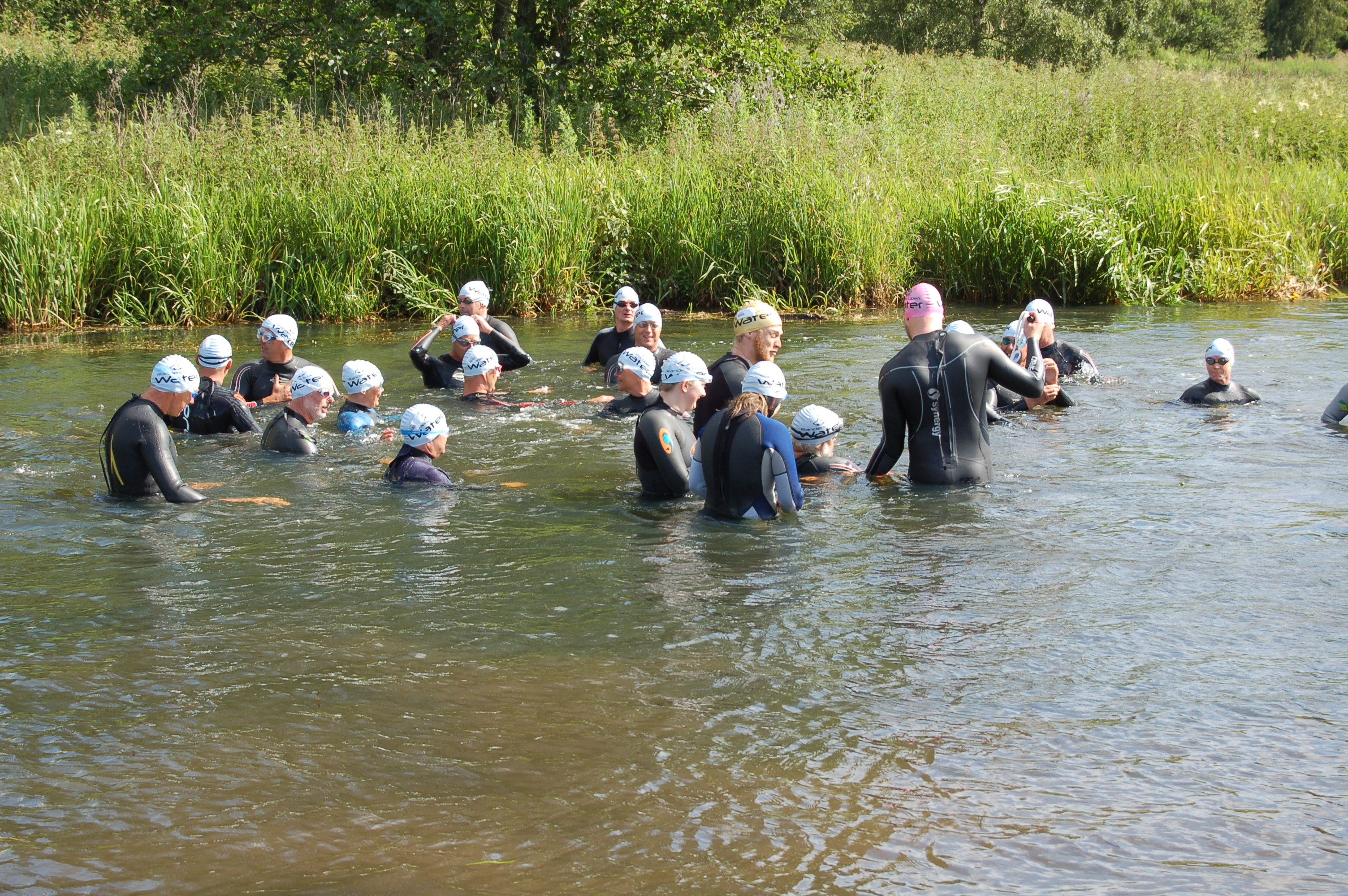 Swimmers ready for start at Randers Open Water 2009, Randers, Denmark